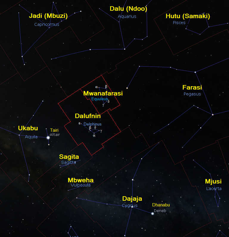 Constellation Delphinus as seen from Tanzania, Swahili labelled Kiswahili: Kundinyota Dalufnin (Delphinus) jinsi inavyoonekana kutoka Tanzania, majina kwa Kiswahil